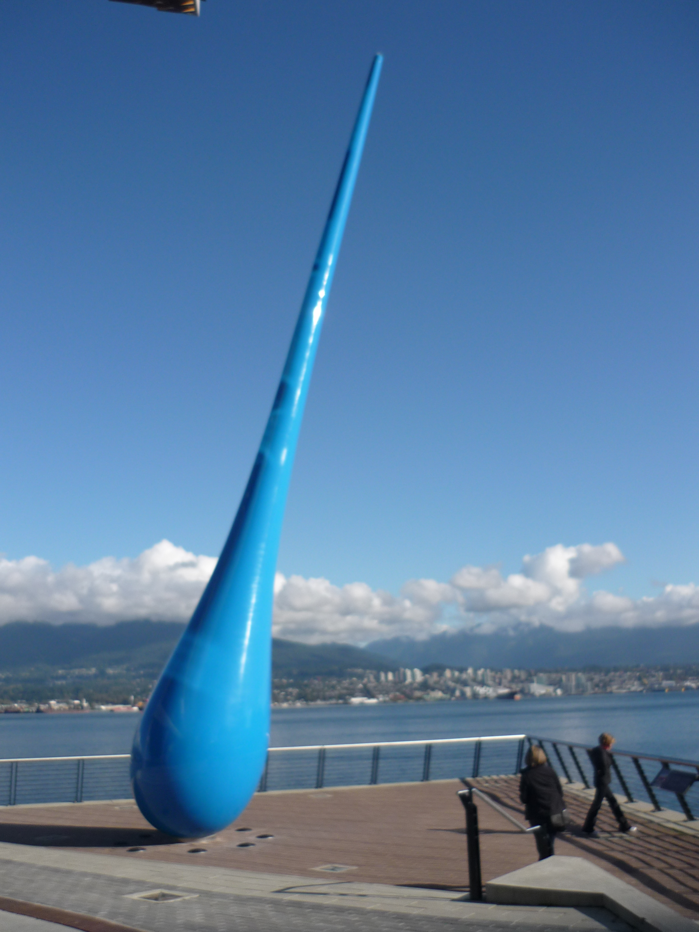 The Drop full frame 2010